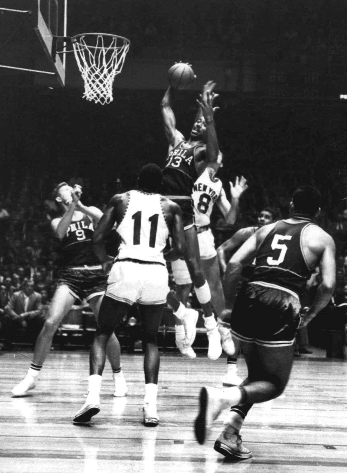 A 1960 basketball game between the New York Knicks vs. the Philadelphia Warriors. From left to rightː Joe Graboski, Johnny Green, Wilt Chamberlain, Mike Farmer and Guy Rodgers